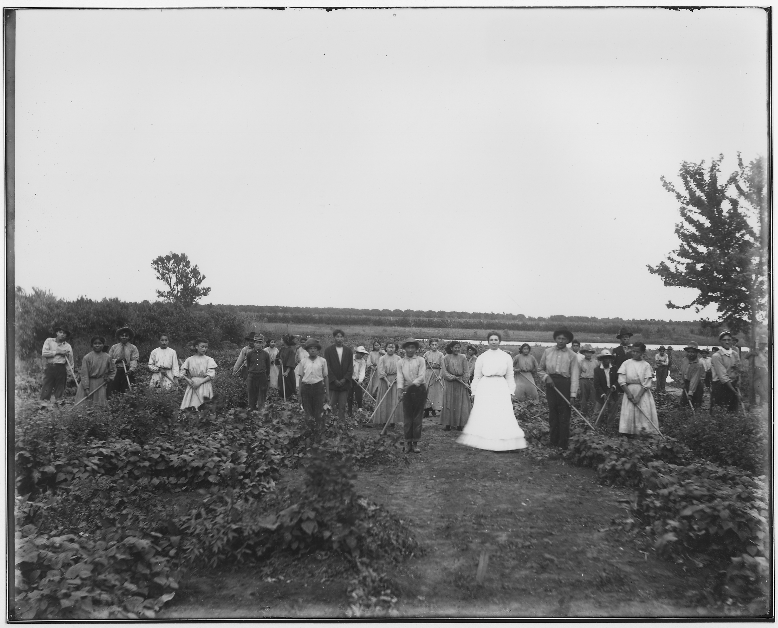 Scope and content: This photograph is part of a series of glass plate negatives used by the Chilocco Indian School print shop in publishing the Indian School Journal.